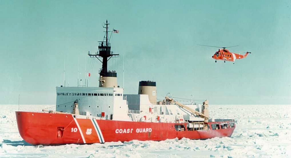 A U.S. Coast Guard HH-52A Seaguard helicopter landing on the icebreaker USCGC Polar Star (WAGB-10).